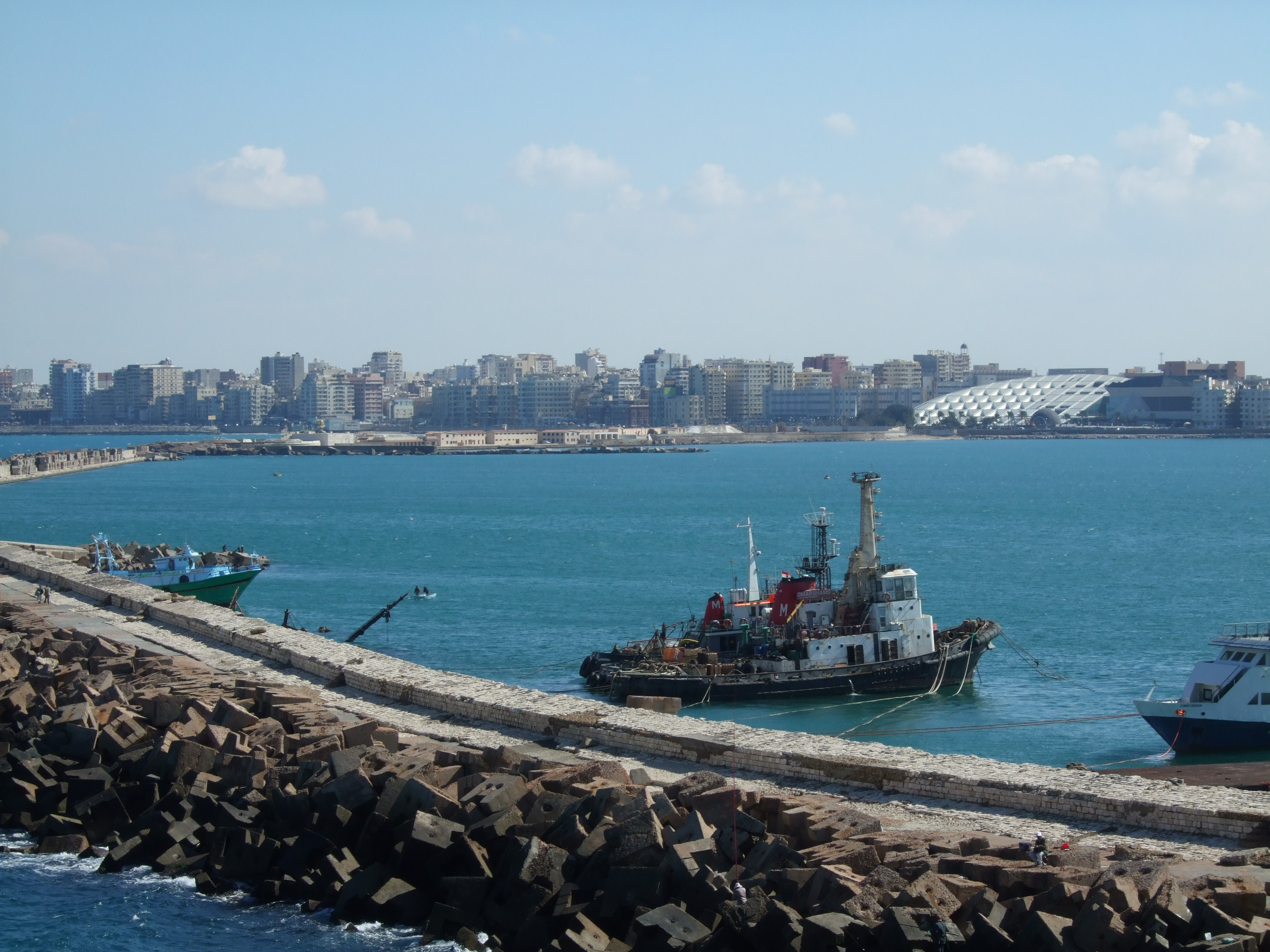 View over Alexandria from the citadel of Qaitbay